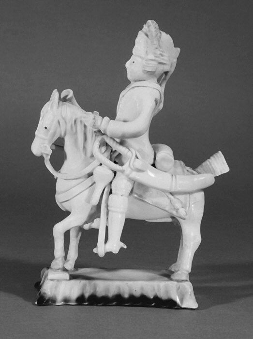 British, Staffordshire; Figure; Ceramics-Pottery